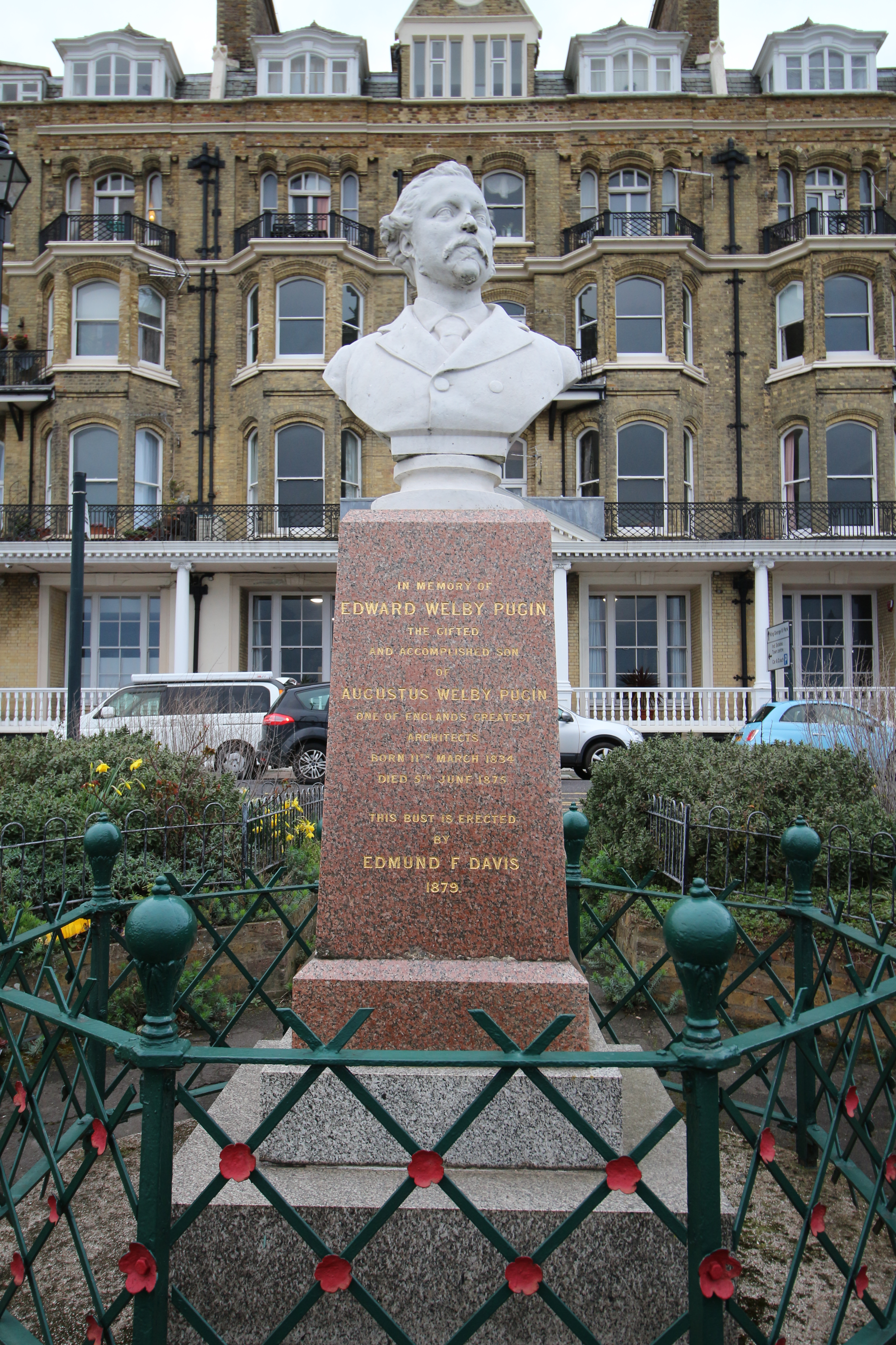 Memorial bust of Edward Welby Pugin in Ramsgate in front of the Granville Hotel by Owen Hall.